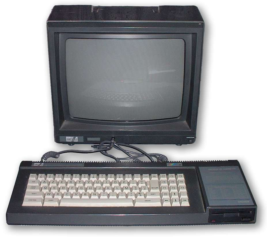 Amstrad CPC 6128 home computer